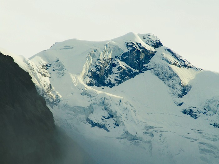 Punta Grober (3497 m) Picture taken and edited by user Idefix October 6, 2006